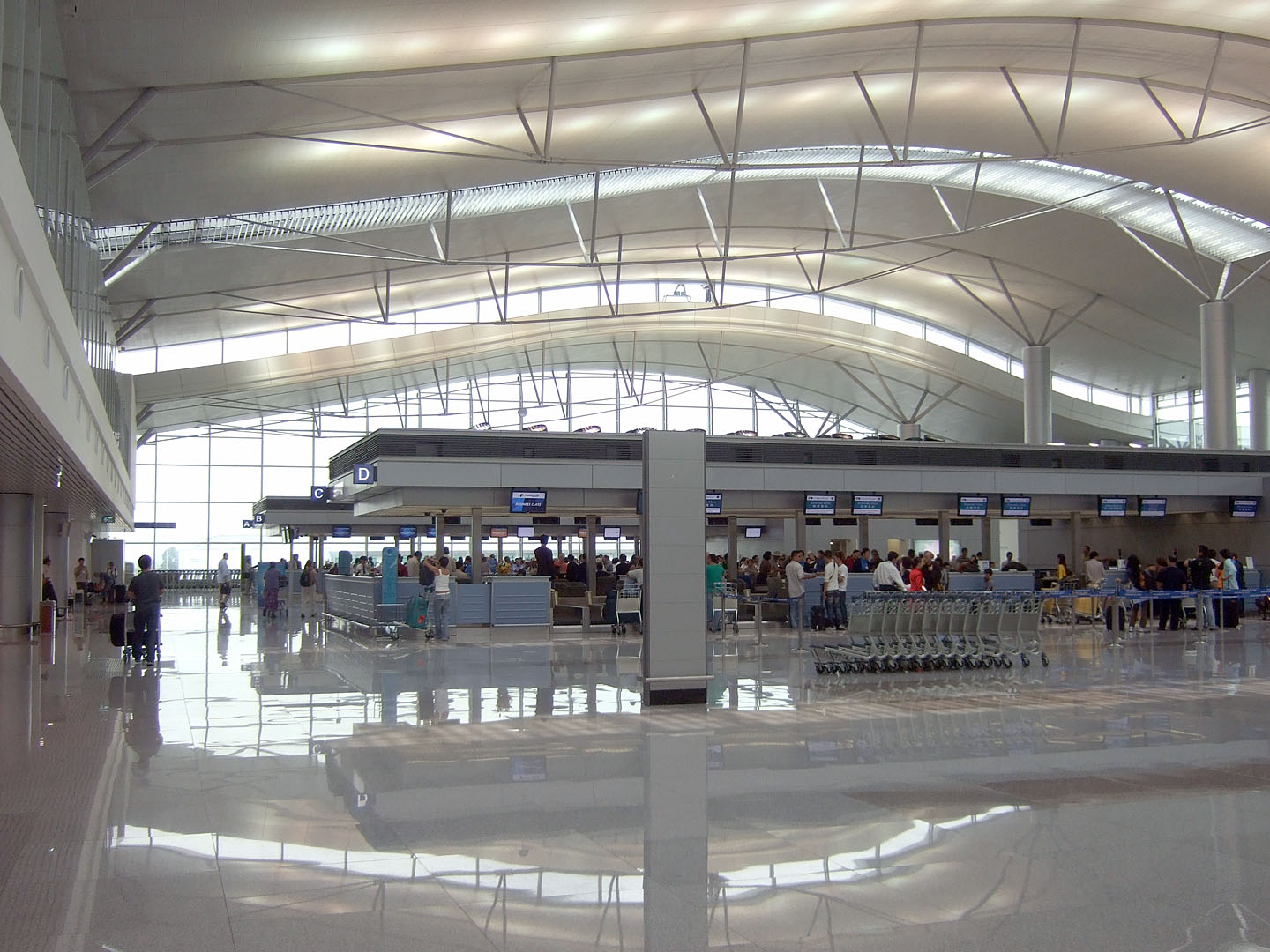 Check-In counter TanSonNhat(SGN) Airport Vietnam